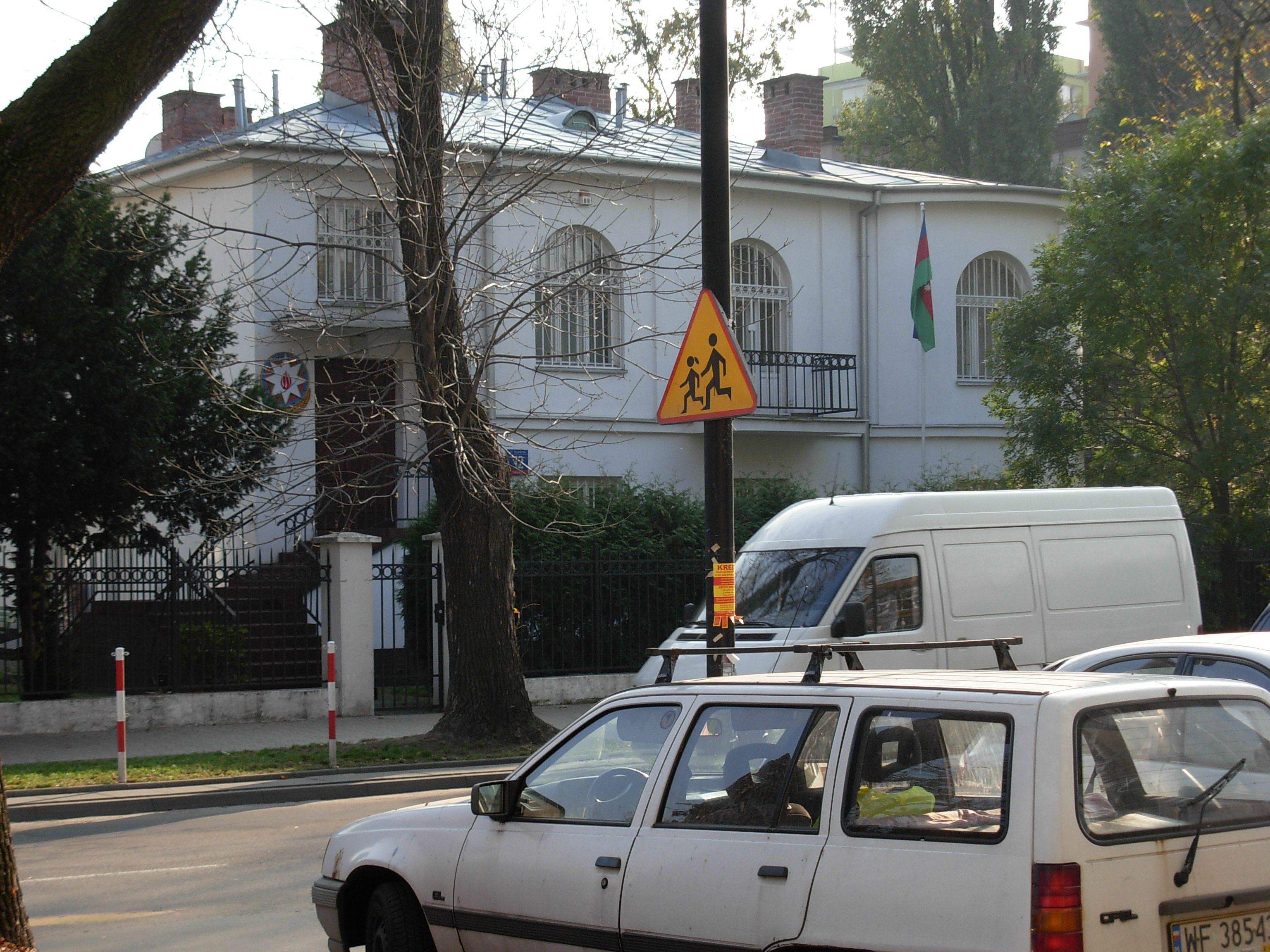 Embassy of Azerbaijan in Warsaw